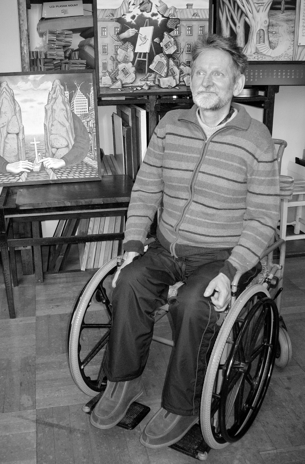 Z. Stec in his art room.